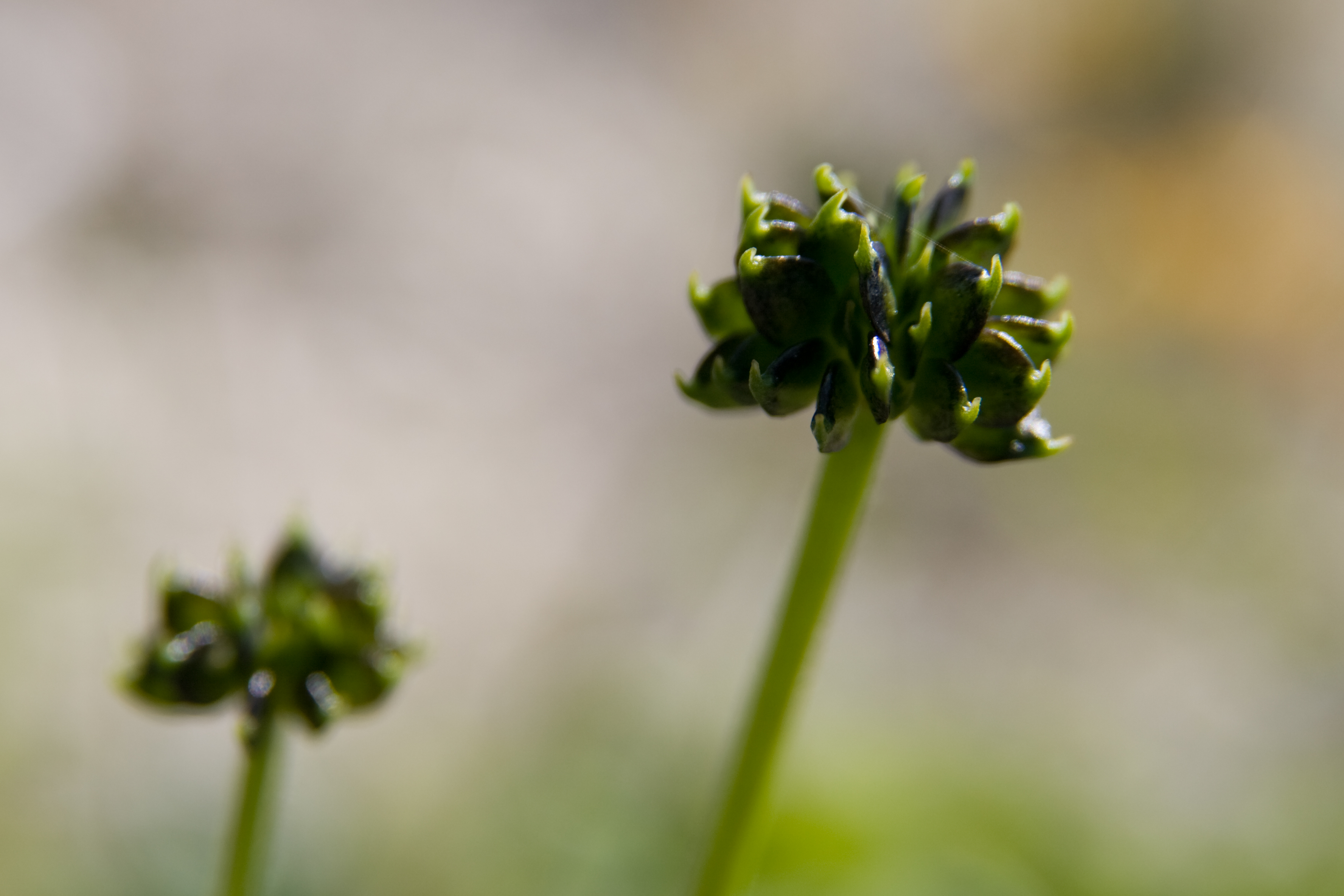 Anemone narcissiflora